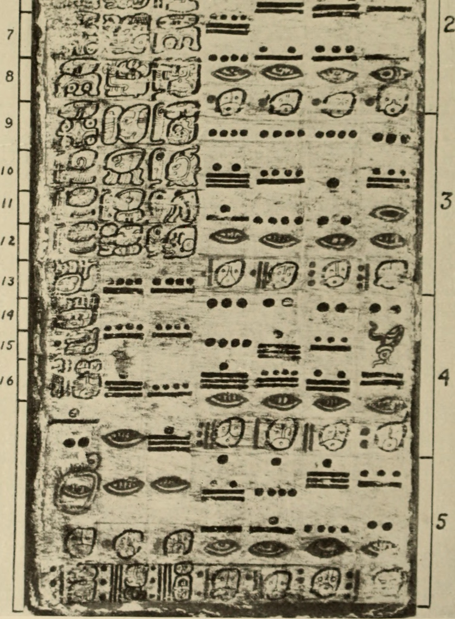 Title: Ancient civilizations of Mexico and Central America Year: 1928 (1920s) Authors: Spinden, Herbert Joseph, 1879-1967 Subjects: Indians of Mexico; Indians of Central America Publisher: New York Text Appearing Before Image: mm®'**Ze,k •«=• • ISBS--fa« Text Appearing After Image: Plate XXIV. Page 24 Dresden Codex. 130